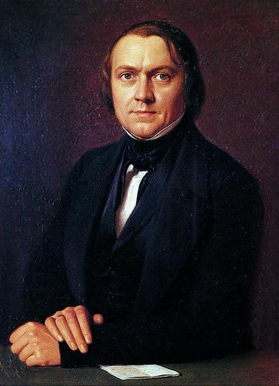 Portrait of Ditlev Gothard Monrad, painted by Constantin Hansen